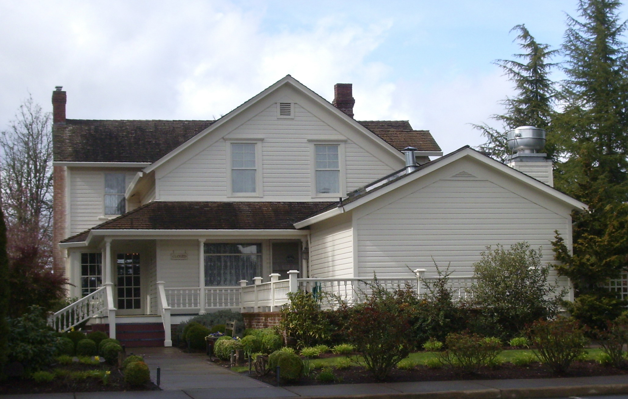 View of Palmer House in Dayton, Oregon from rear where parking for the restaurant and its the functioning entrance.